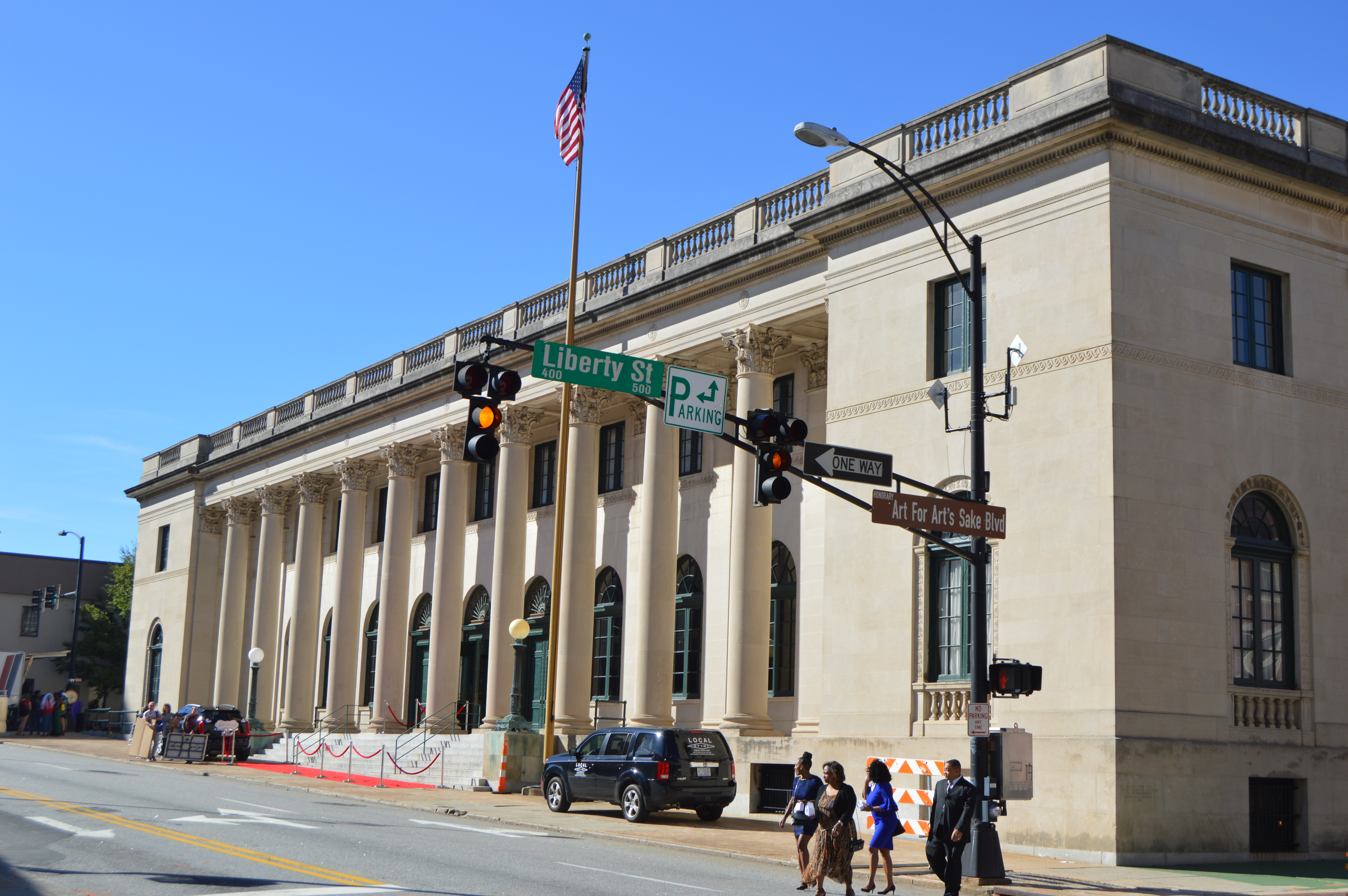 Front of the former Winston-Salem main post office, located at 101 W. Fifth Street in Winston-Salem, North Carolina, United States. Built in 1926, it is part of the Downtown North Historic District, a historic district that is listed on the National Register of Historic Places.